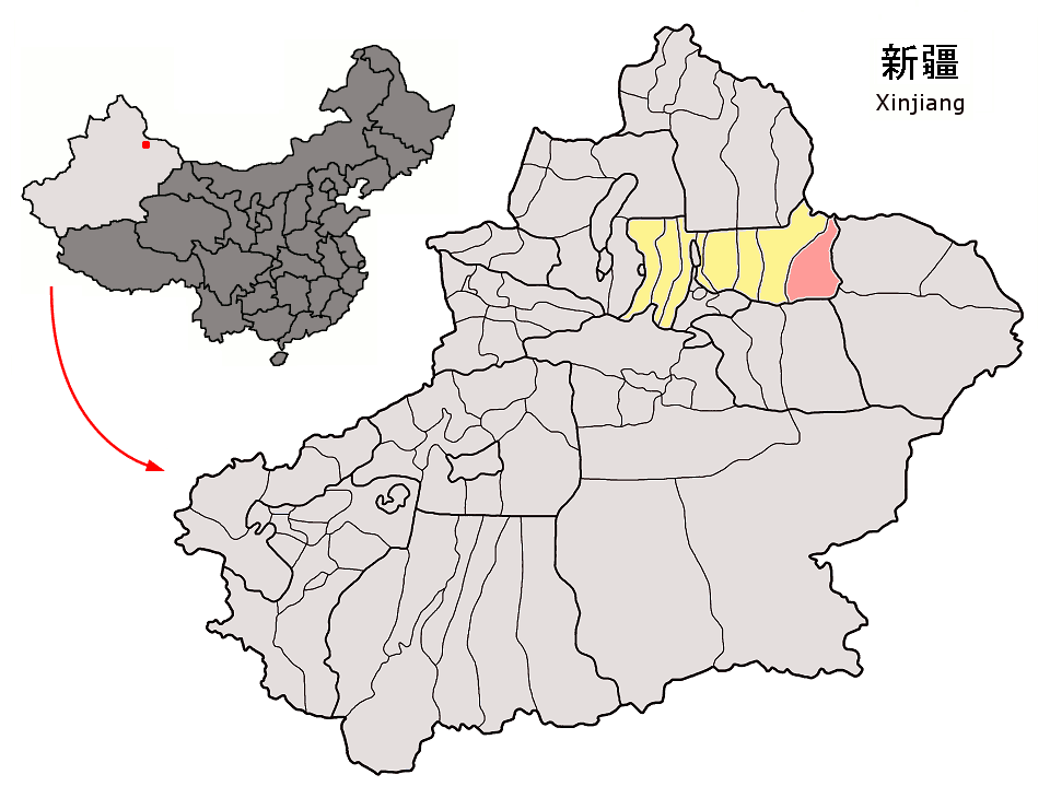 Location of Mori County (pink) and Changji Prefecture (yellow) within Xinjiang autonomous region of China Map drawn in september 2007 using various sources, mainly : Xinjiang Uygur autonomous region administrative regions GIS data: 1:1M, County level, 1990 Xinjiang Counties map from